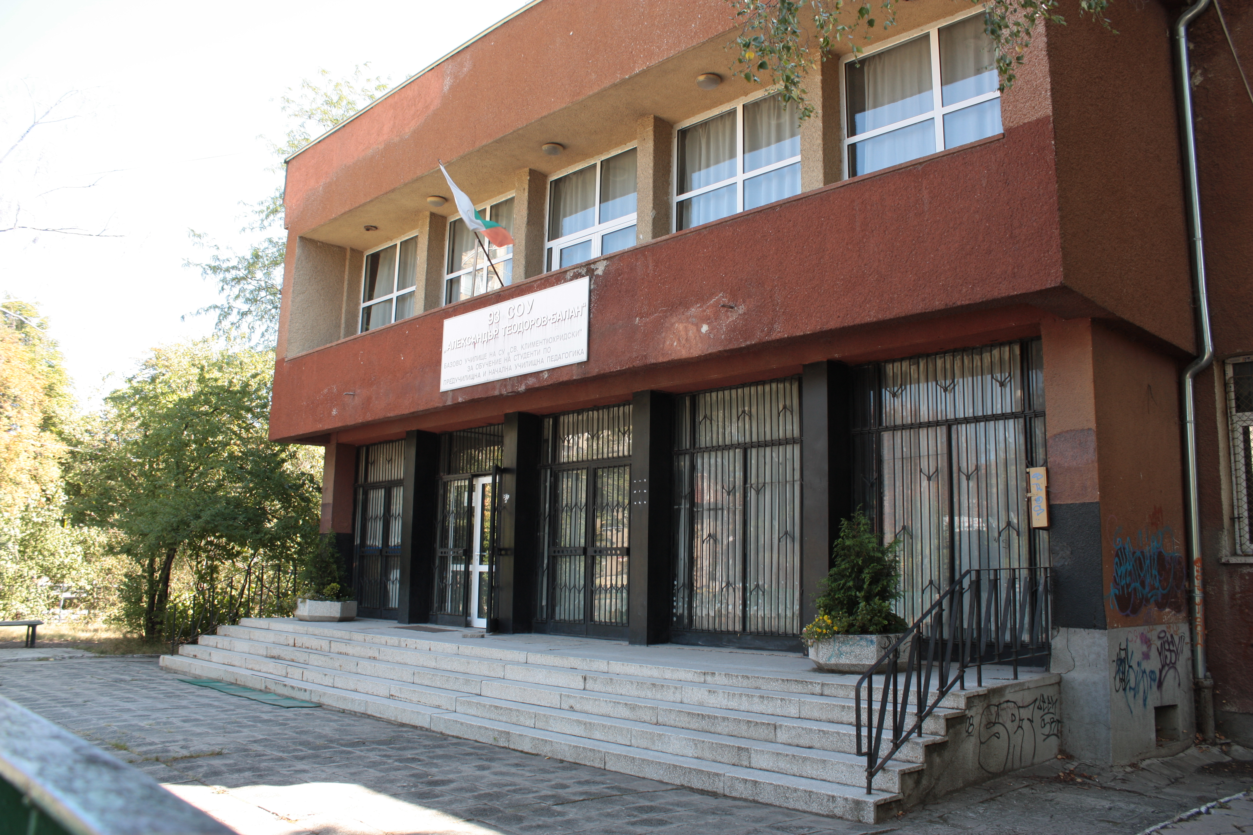 Sofia Secondary School 93 for Pedagogical Education, Bulgaria